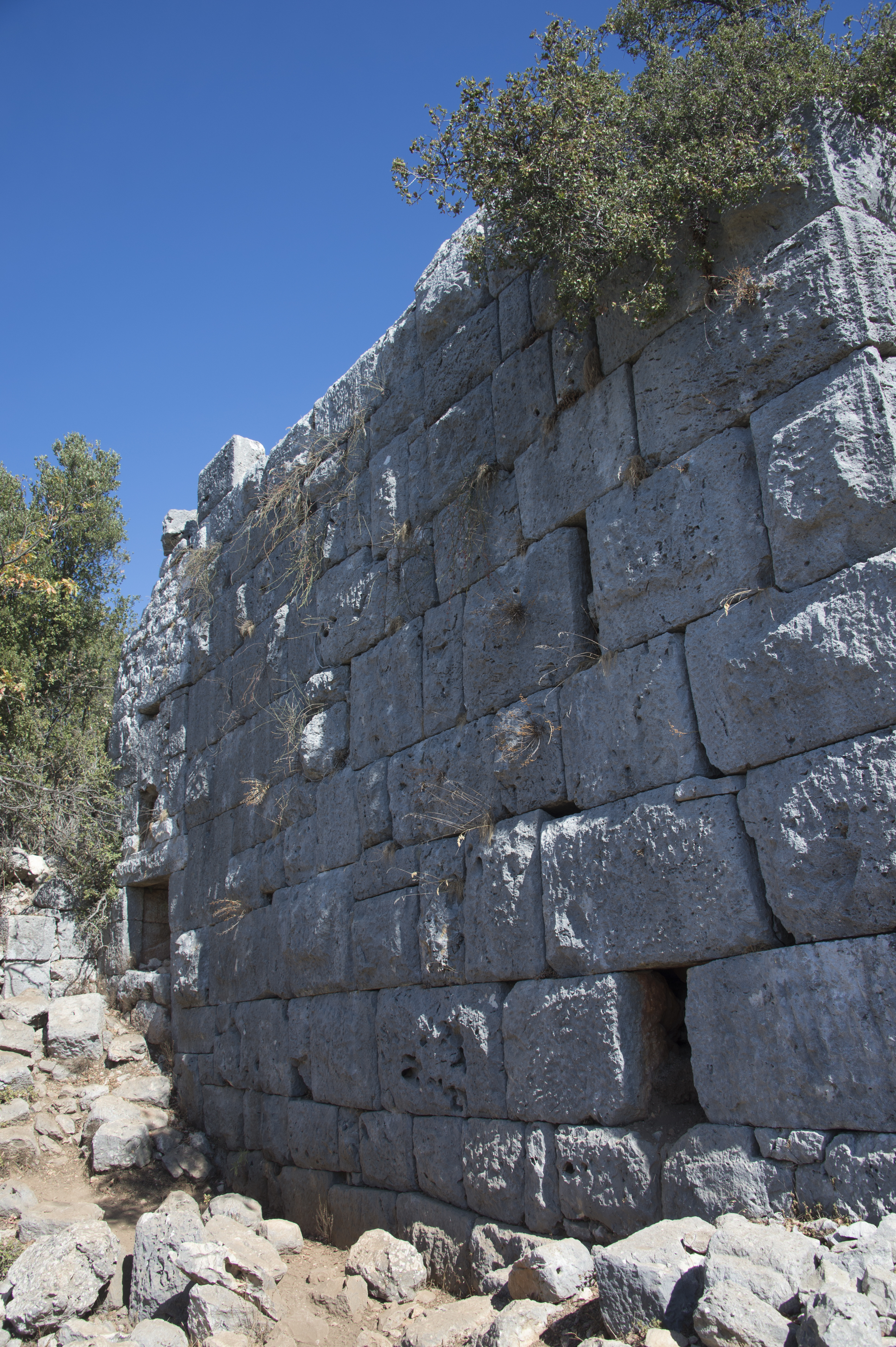 The acropolis is so overgrown that it is impossible to a non-specialist to recognise constructions. This was one of the rare large walls, but of what?